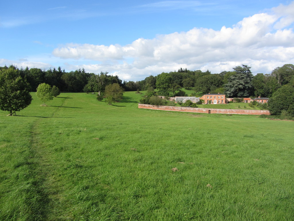 Hope End House and the footpath above Wellington Heath, Herefordshire, England.